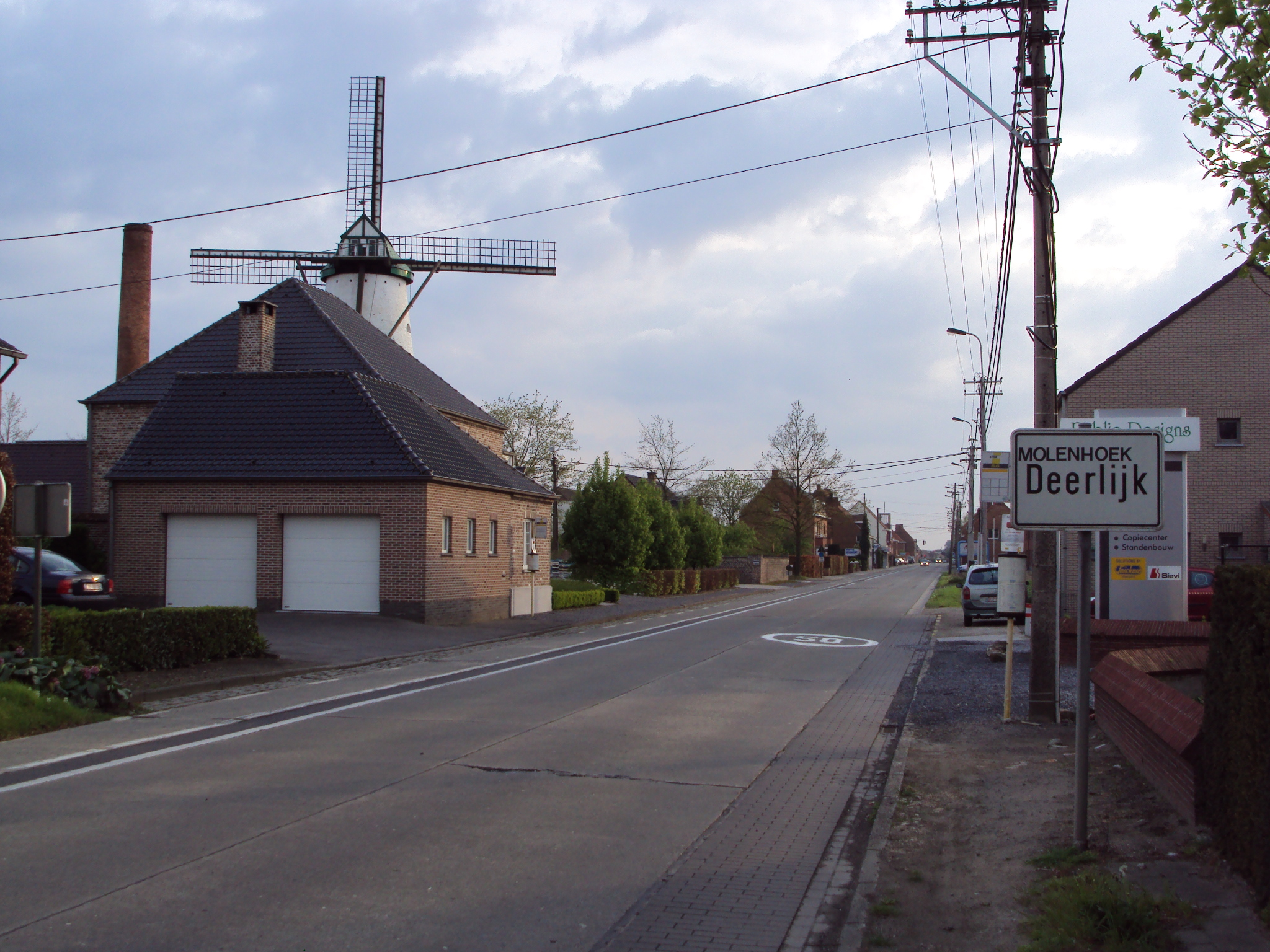 Molenhoek, a hamlet of Deerlijk